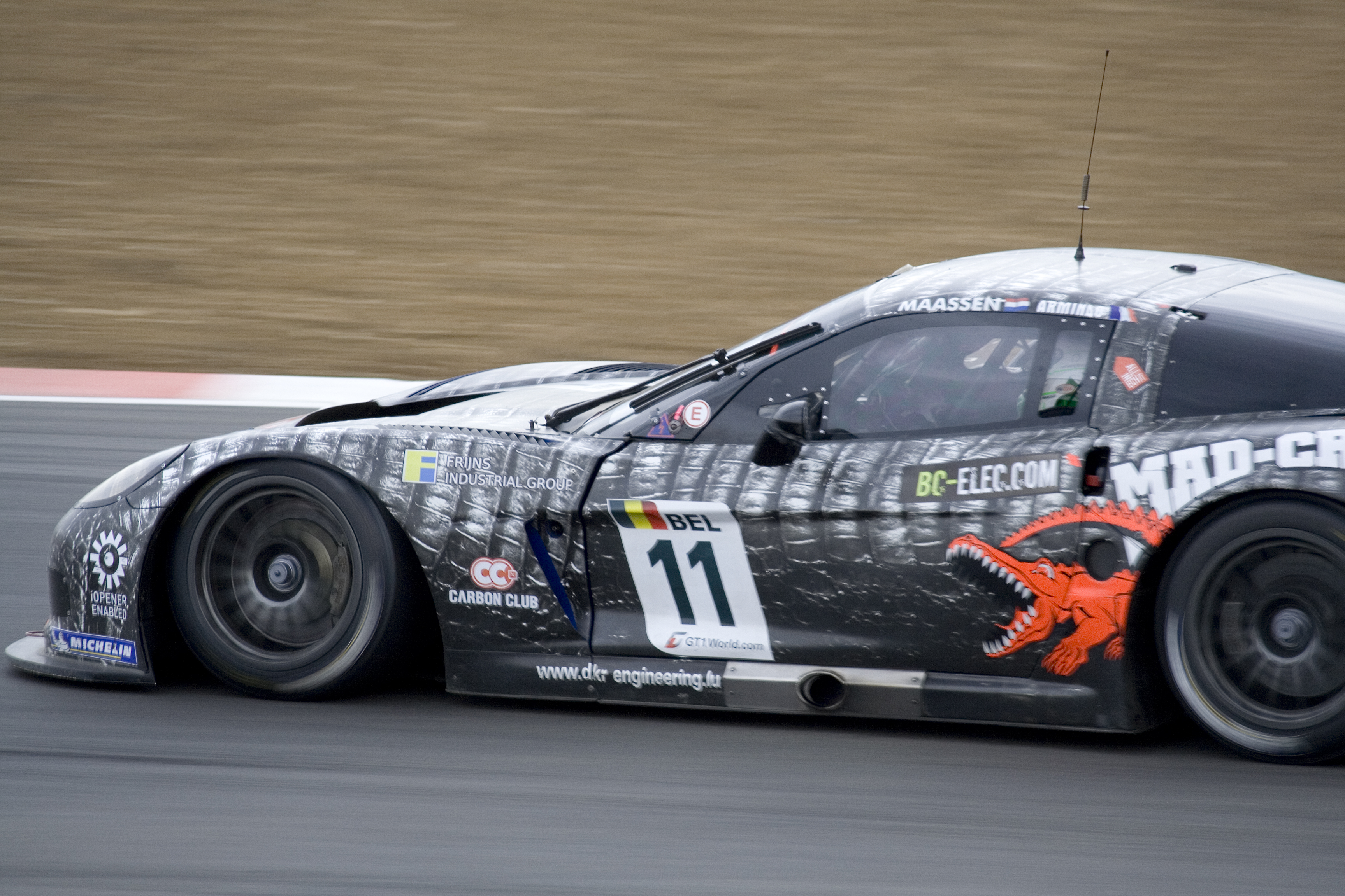 FIA GT1 Qualifying Race - Chevrolet Corvette (Mad-Croc Racing)